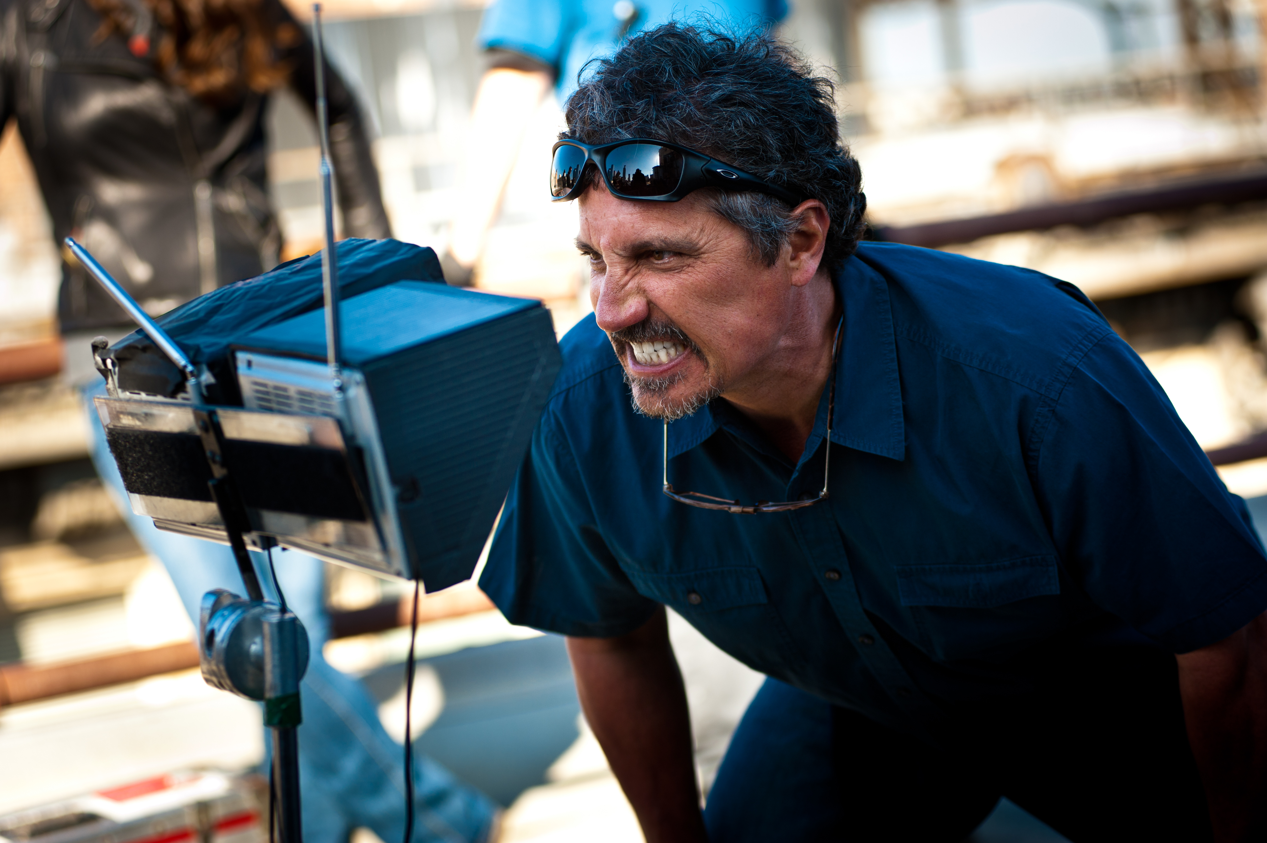 Director Rob Bowman, filming a roof-top fight scene for the television show Castle.